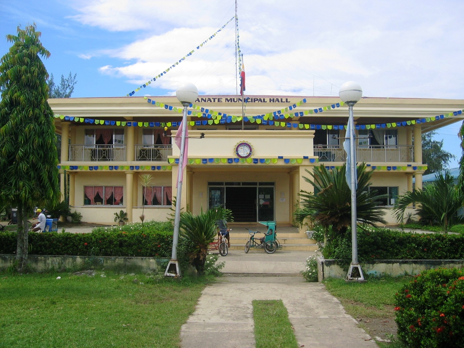 Municipal Hall of Banate, Iloilo. Photo taken by Sulbud. Sulbud: Sulbud 02:54, 2 July 2007 (UTC)